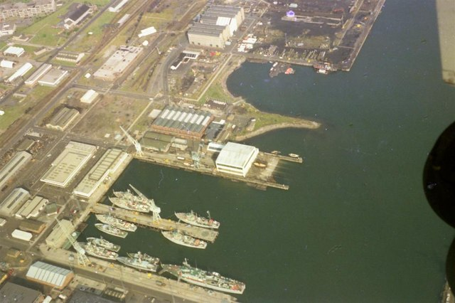 Rosyth Dockyard - 1975 An aerial view en route to Edinburgh. Quite a few changes can be seen from Google Earth since the photograph was taken, and the whole area has been redeveloped to become Rosyth Europarc. The curved bits of shoreline in the middle have been changed, with some filling in and emptying out to give a rectangular basin, used by the Zeebrugge ferries.